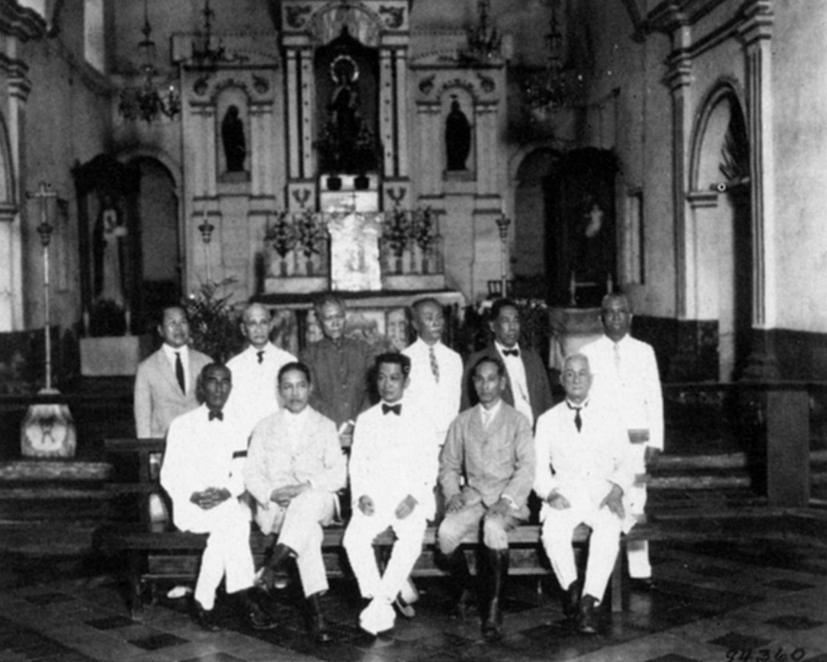 General Emilio Aguinaldo Description: General Aguinaldo (seated, center) and ten of the delegates to the Assembly of Representatives that passes the Constitución Política de la República Filipina on Jan. 21st 1899